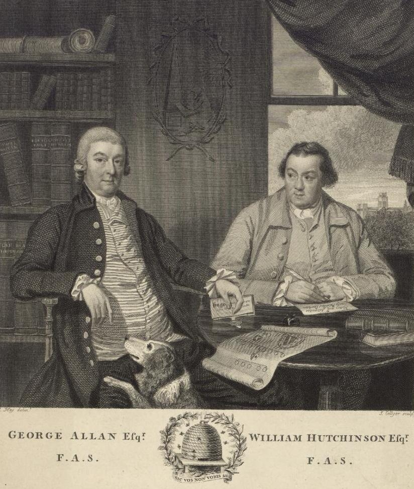 A portrait from the Welsh Portrait Collection at the National Library of Wales. Depicted people: George Allan and William Hutchinson